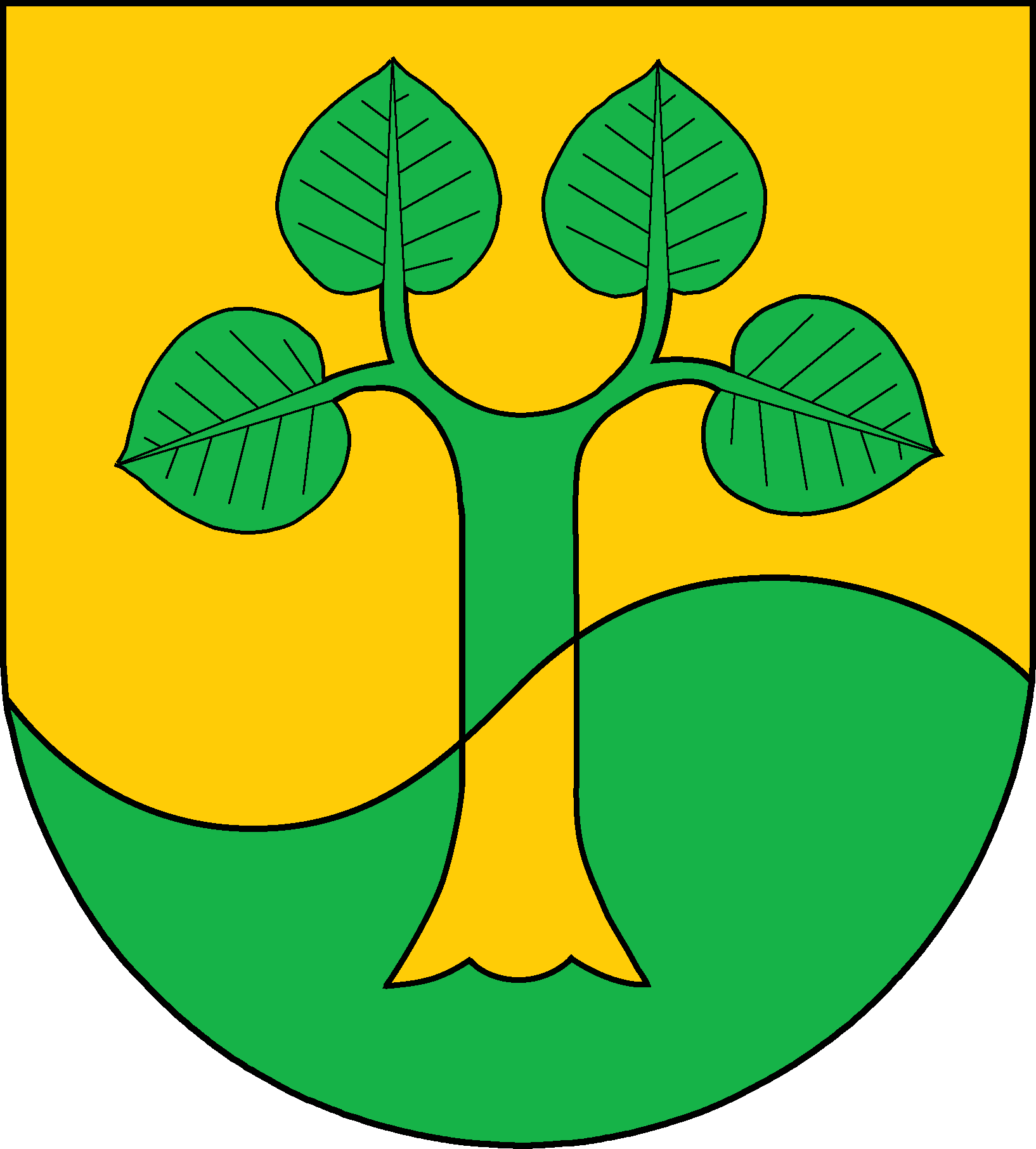 Coat of arms of the municipality Nienborstel in Schleswig-Holstein, Germany.